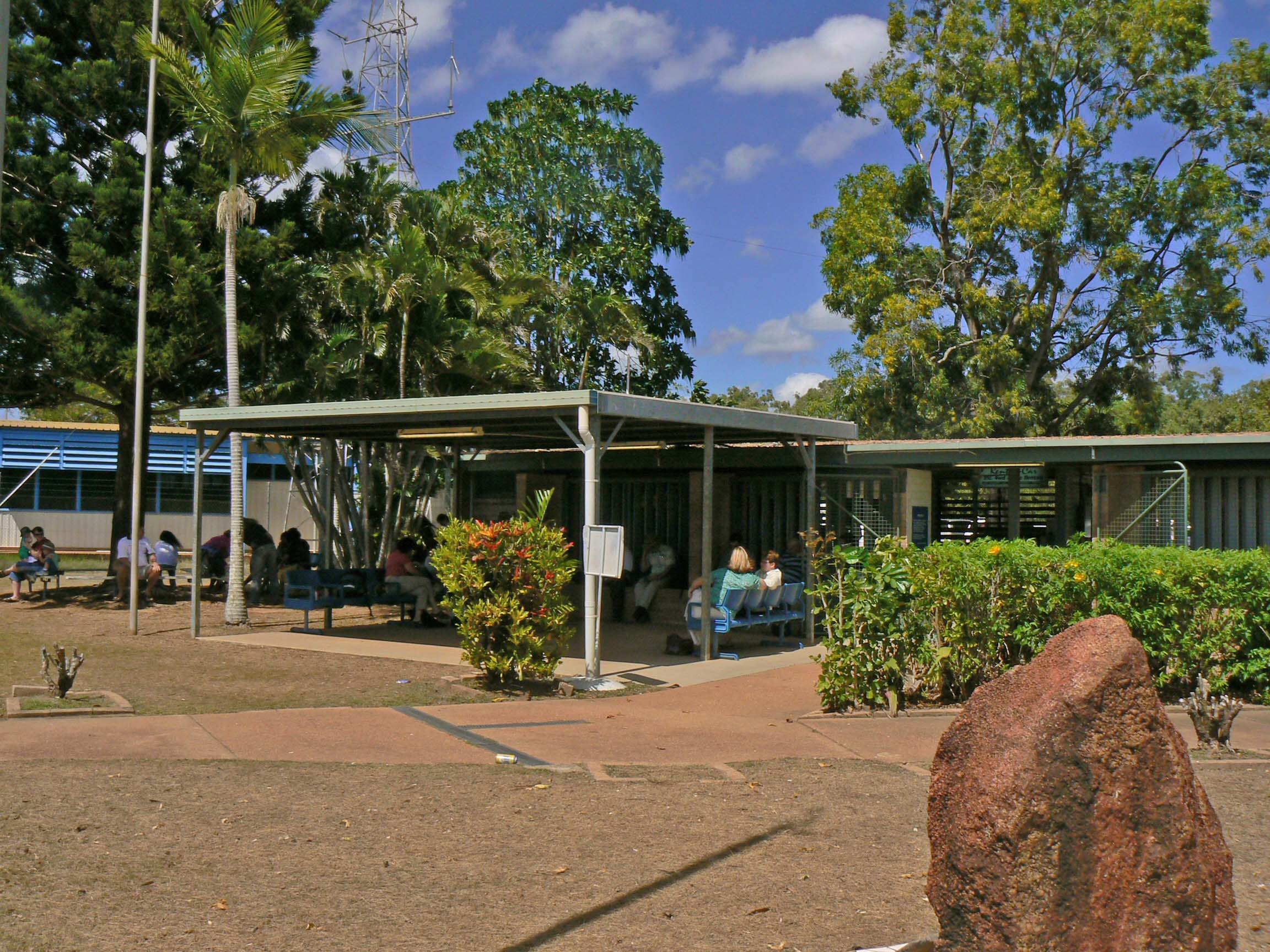 Weipa Airport departure lounge, photograph taken from the departure gate. Taken with Panasonic DMC FZ-27.